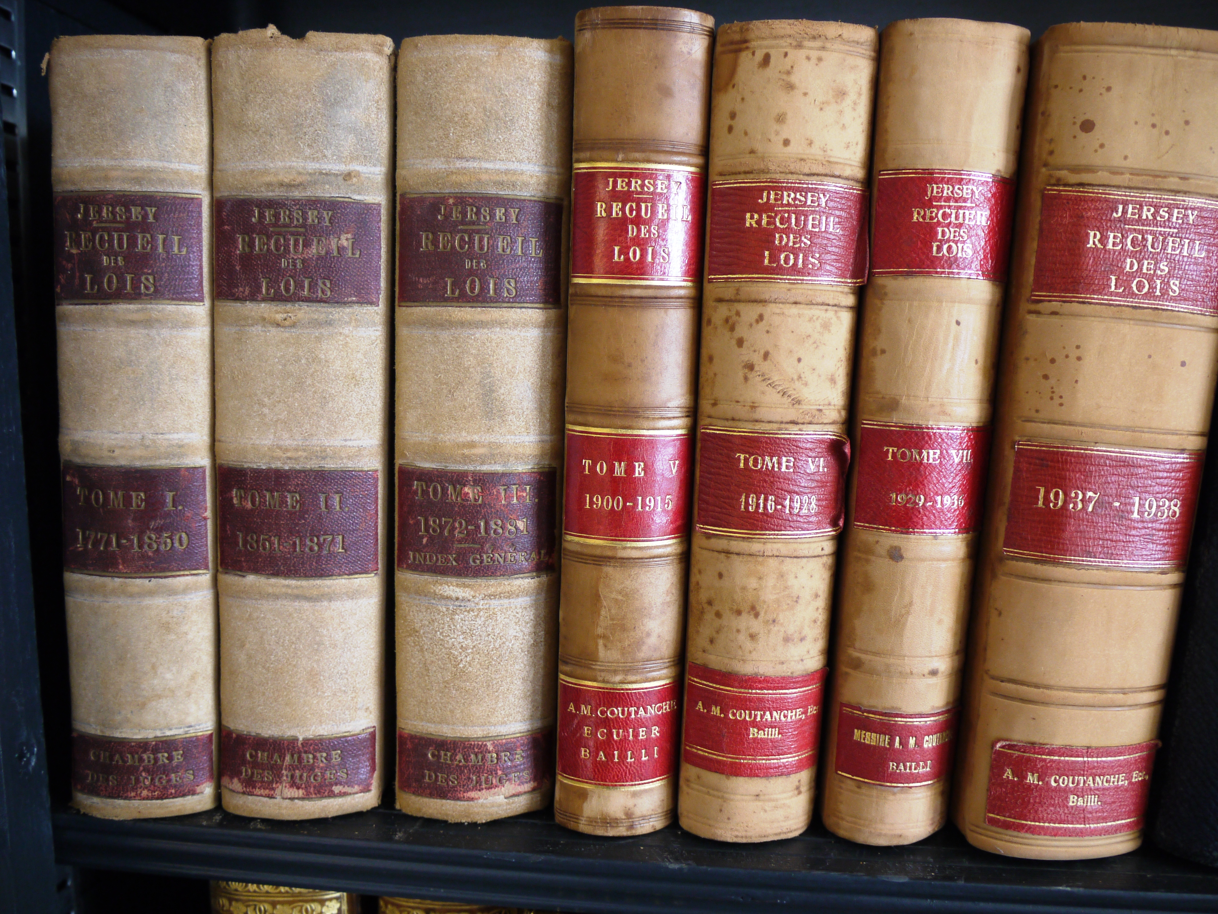 Volumes of legislation passed by the States of Jersey in the Channel Islands since 1771